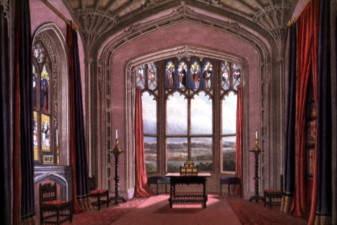 Gallery, Fonthill Abbey (James Wyatt, architect) Interior of St Michael's Gallery